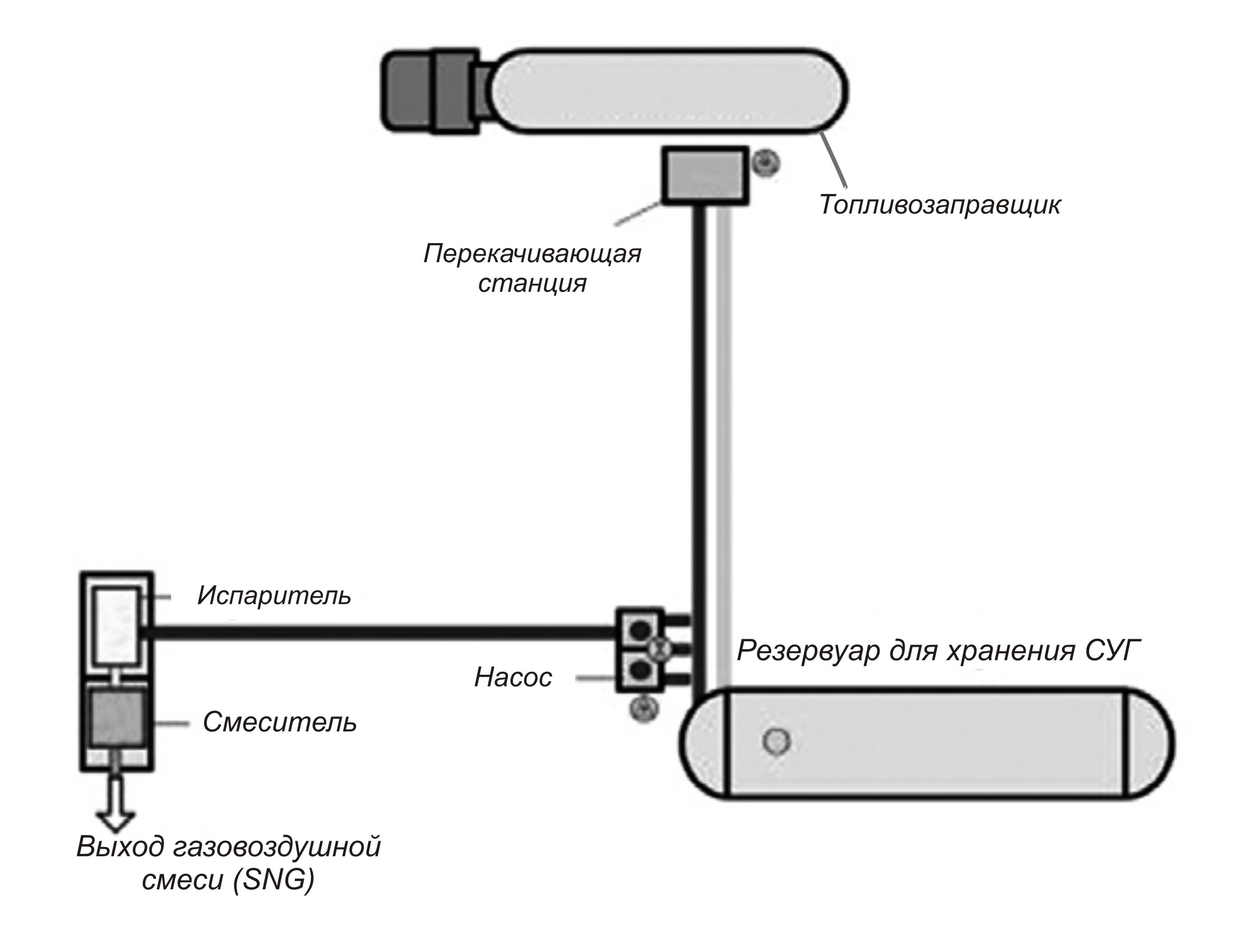 Упрощенная схема системы производства SNG низкого давления